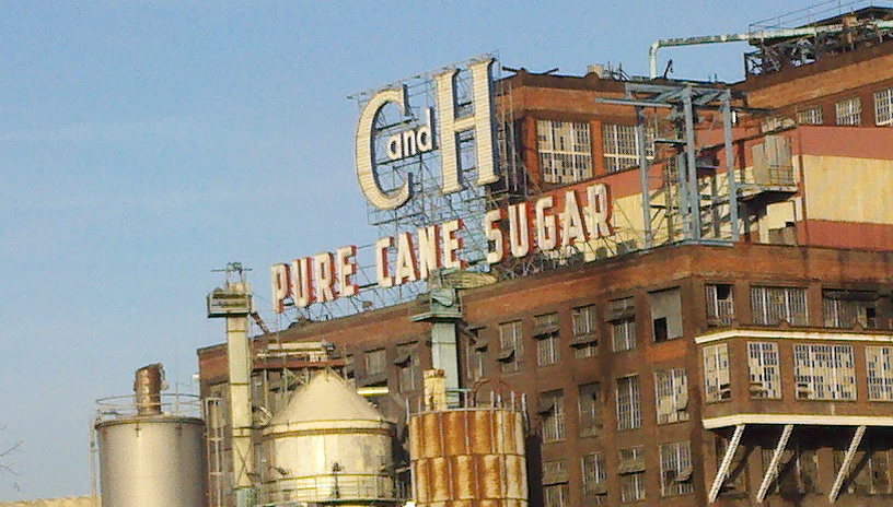 The C&H Sugar factory in Crockett, California